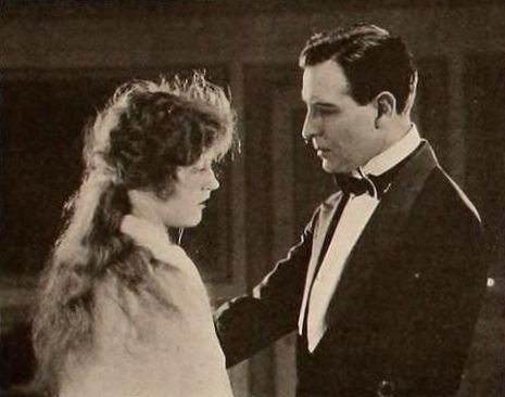 Still from the American film April Folly (1920) with Marion Davies and Conway Tearle, on page 3314 of the April 10, 1920 Motion Picture News.